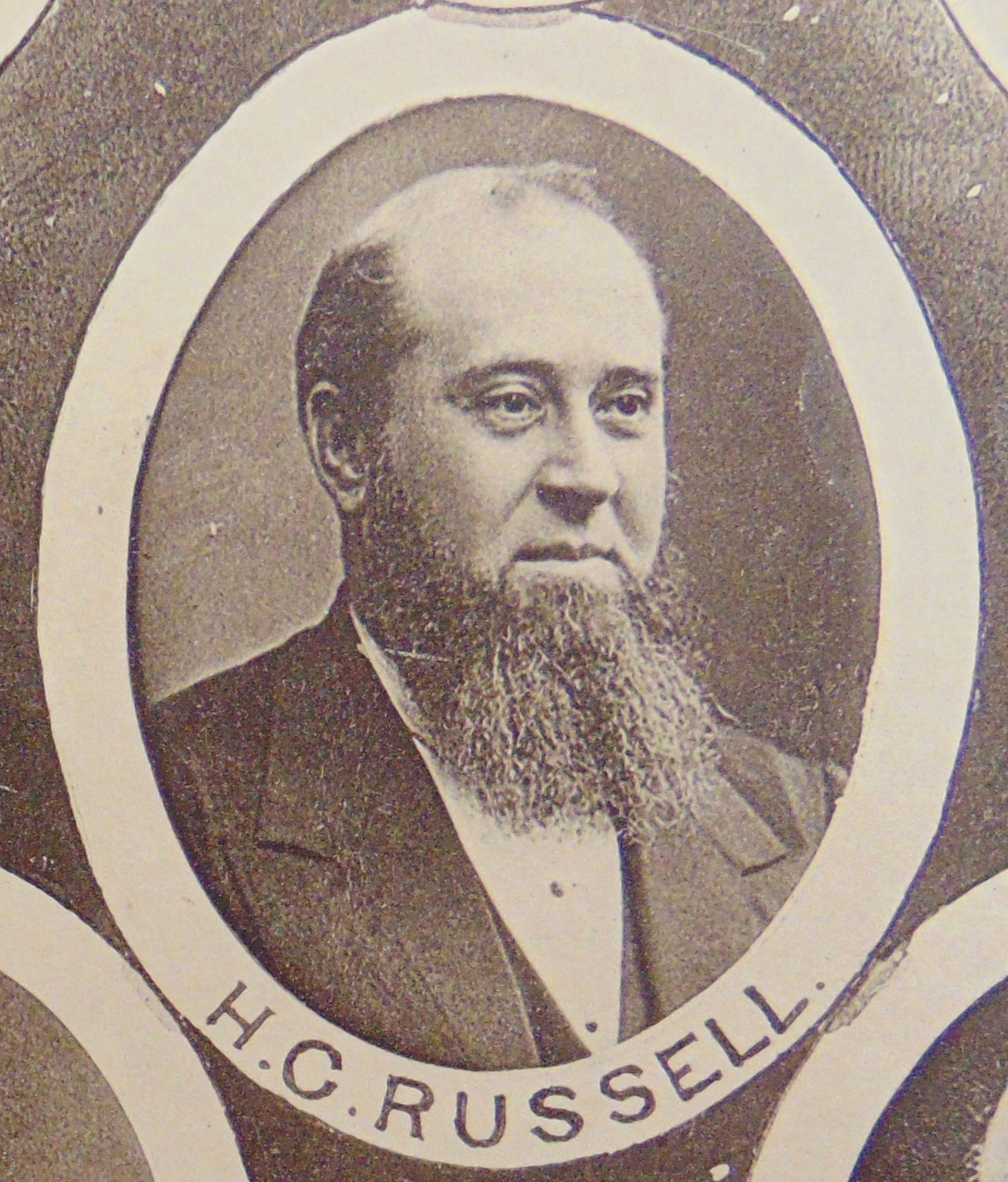 Detail of frontispiece from: Observations of the Transit of Venus 9 December 1874; Made at Stations in New South Wales, Illustrated with photographs and Drawings, under the direction of H. C. Russell, B.A., C. M. G., F.R.S., F.R.A.S. &c., Government Astronomer. C. Potter, government printer, 1892